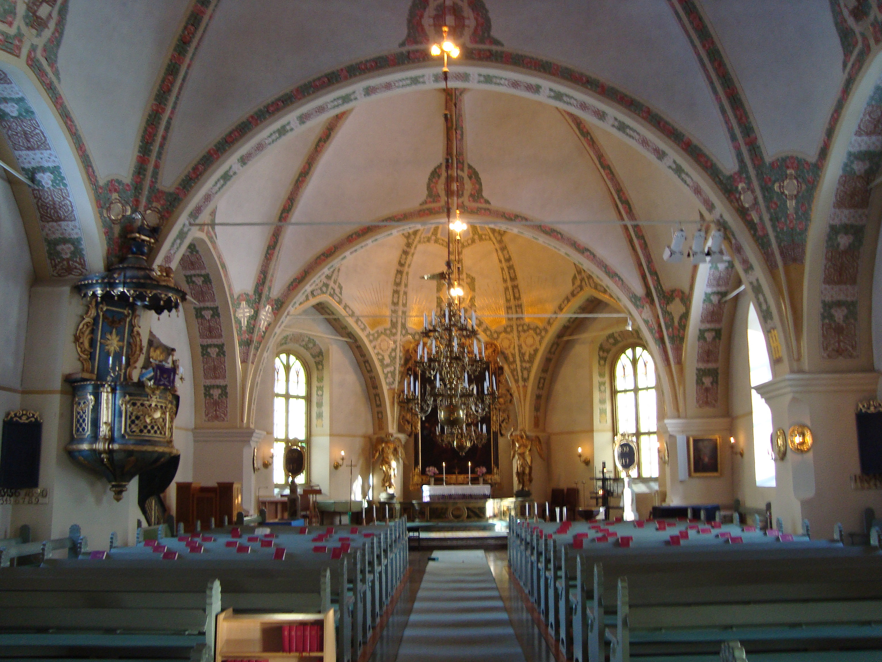 Kristina church, Sala Municipality, Diocese of Västerås, Sweden